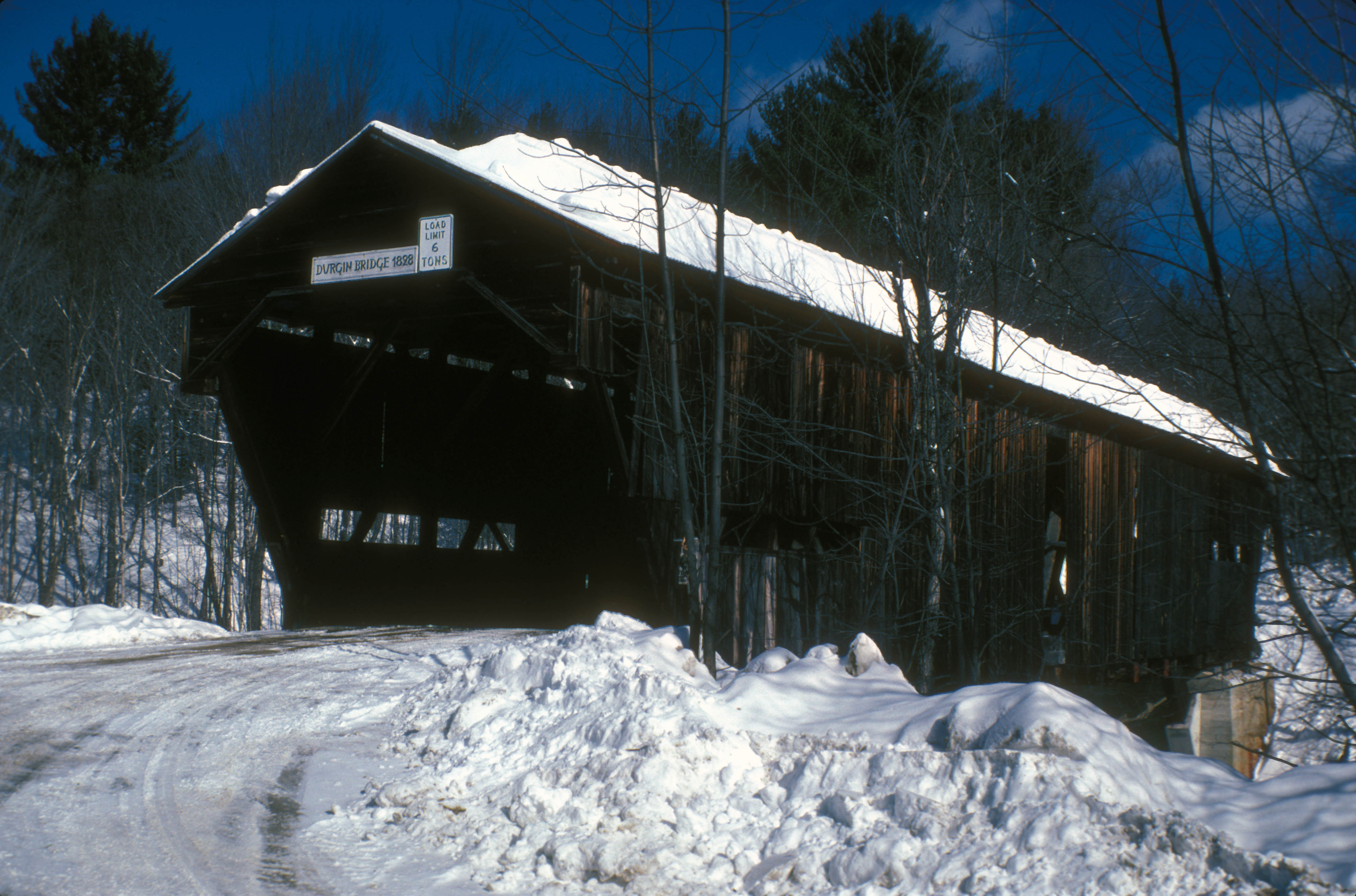 1869; 96’ PADDLEFORD AND ARCH OVER COLD RIVER